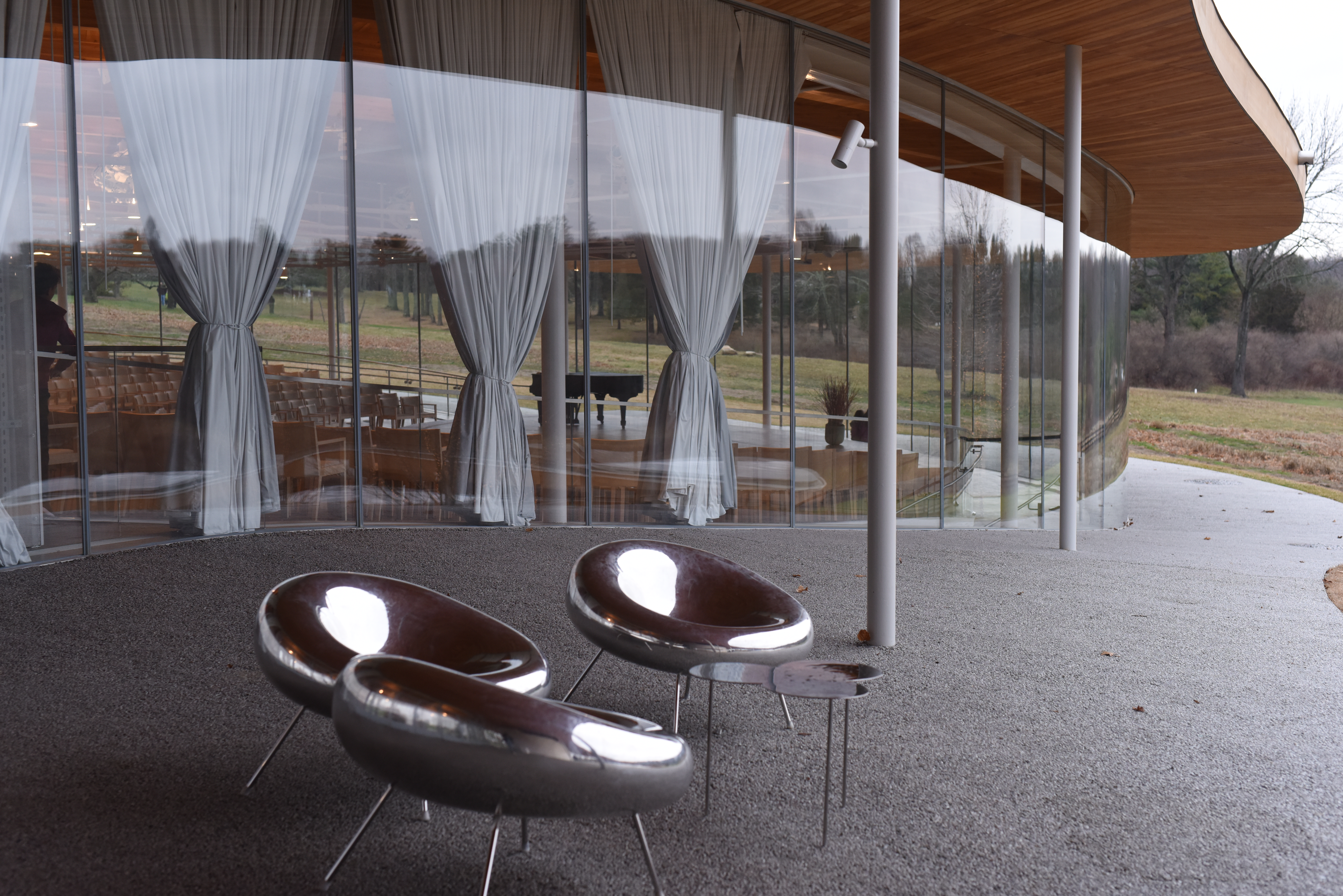 Silver Chairs at Grace Farms.